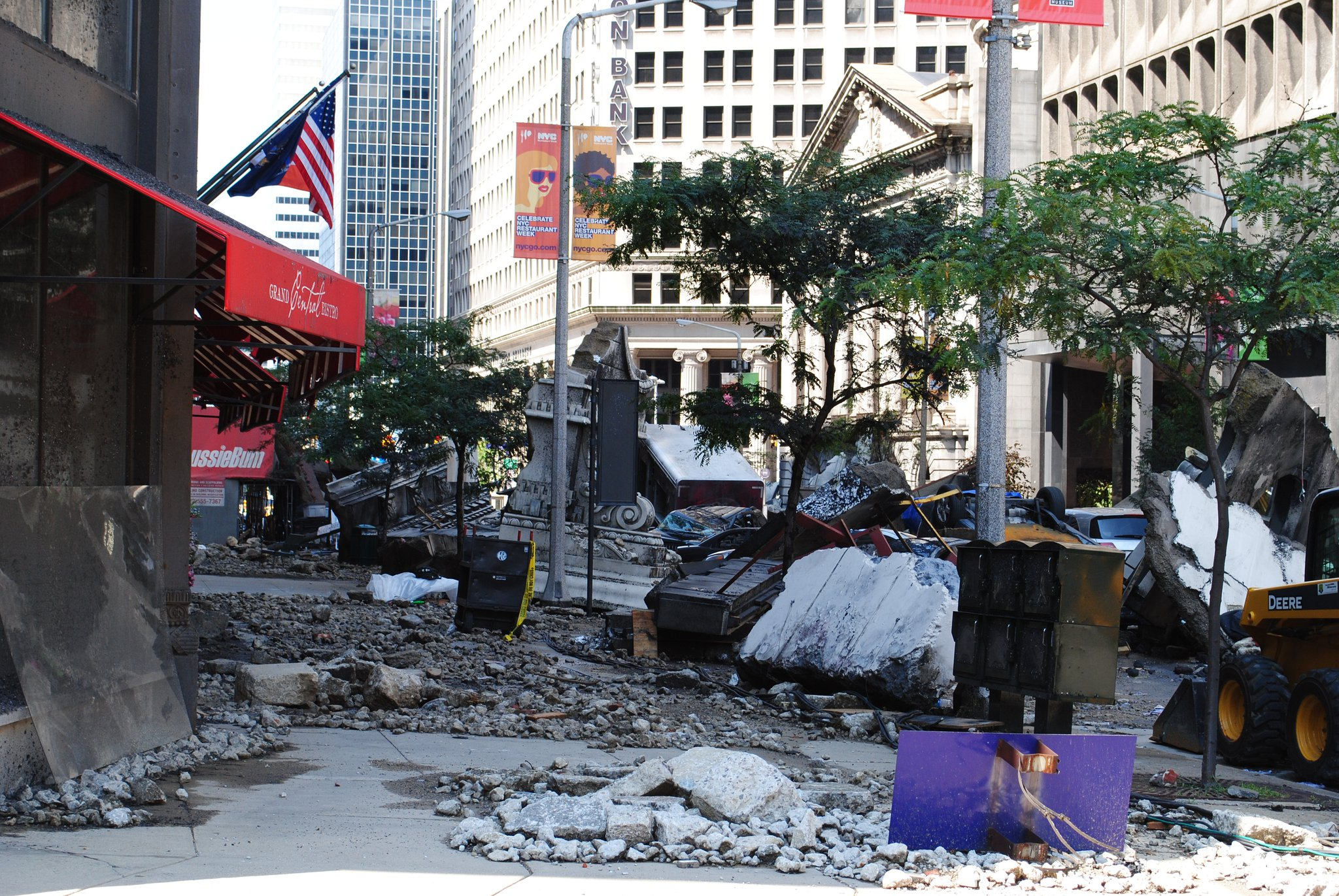 Styrofoam rubble and crushed cars litter East 9th Street in Cleveland, Ohio as the area is transformed into a New York City street for filming of The Avengers.